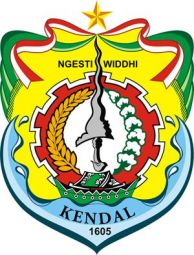 Coat of arms of Kendal Regency, Central Java